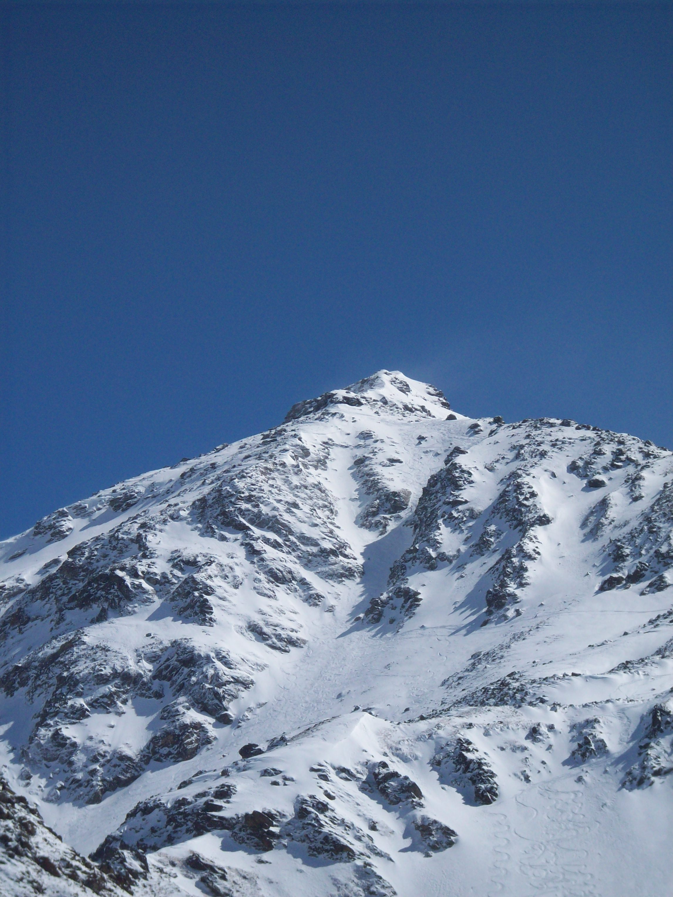 A picture of Pizzo Groppera in the spring. This photograph was taken from the town of Madesimo.